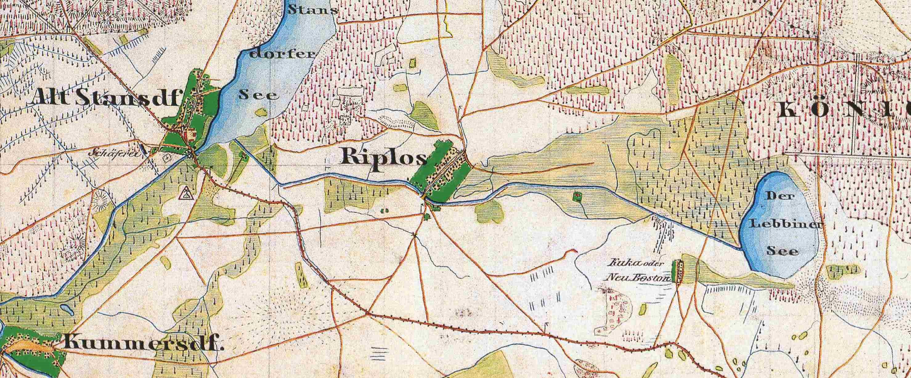 Ditch of the today Rieploser Fließ in the District Oder-Spree, Brandenburg, Germany. Detail from the Urmesstischblatt (prototype planetable sheet at 1:25,000) Sheet 3750 Bad Saarow-Pieskow, drawn in 1844.